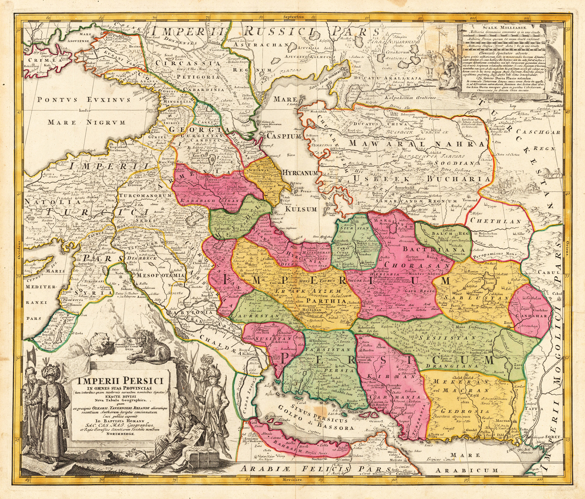 Map of Persia Copperplate print on paper, colorized, 53 × 60.7 cm Detailed map of the Persian empire, extending from the Black Sea, Khasikstan and Turkistan in the North to the Red Sea, Persian Gulf, Euphrates and the Mediterranean in the South, showing a part of Cyprus. Decorative map, showing cities, mountains, rivers, lakes, roads, etc. Large decorative cartouche inthe lower left corner and smaller cartouche in the right upper corner